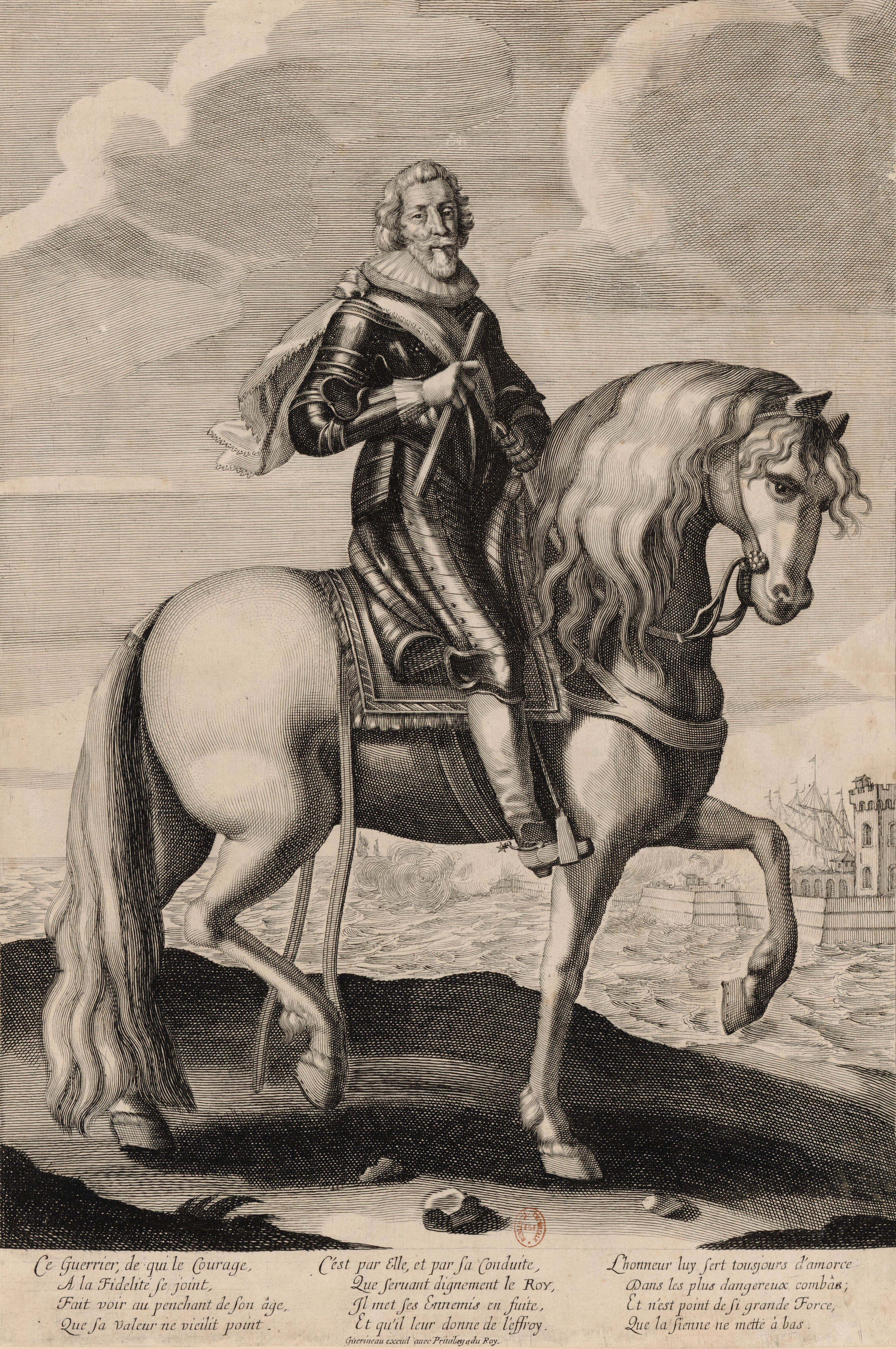 Equestrian portrait of Jacques Nompar de Caumont la Force, Marshal of France.